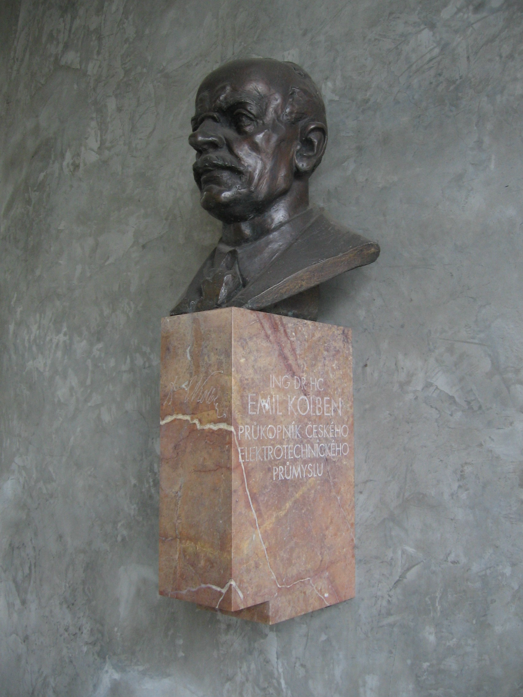 Bust of Emil Kolben at Kolbenova metro station, Prague